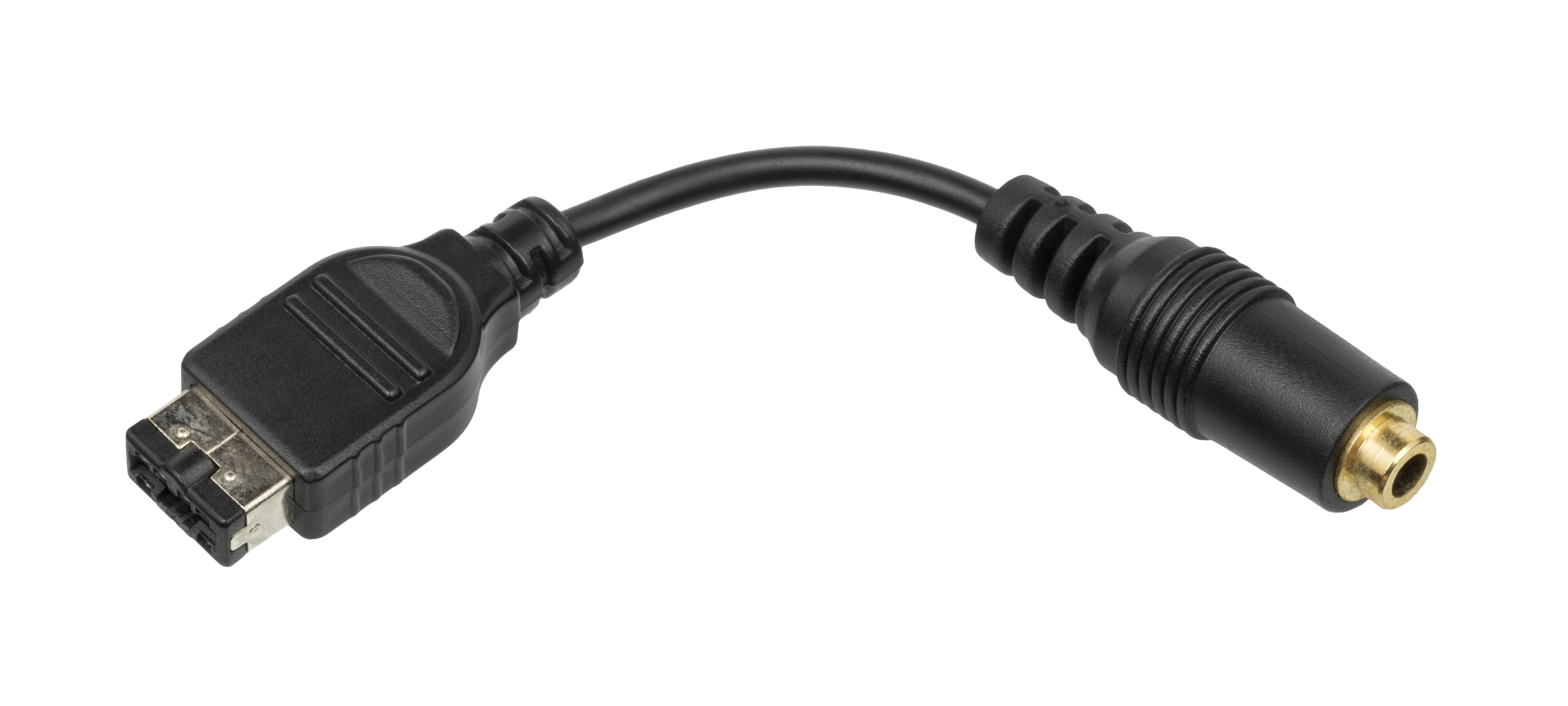 A headphone adapter for the Nintendo Game Boy Advance SP handheld consoles. Unlike previous Nintendo handhelds, the SP did not have a headphone jack, requiring an adapter when not listening to the onboard speaker. It is the only model to lack a headphone jack.